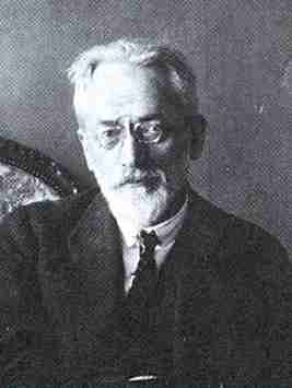 Stanisław Stempowski, Polish politician and scientist, Minister in Ukrainian Government of UNR 1919-1920